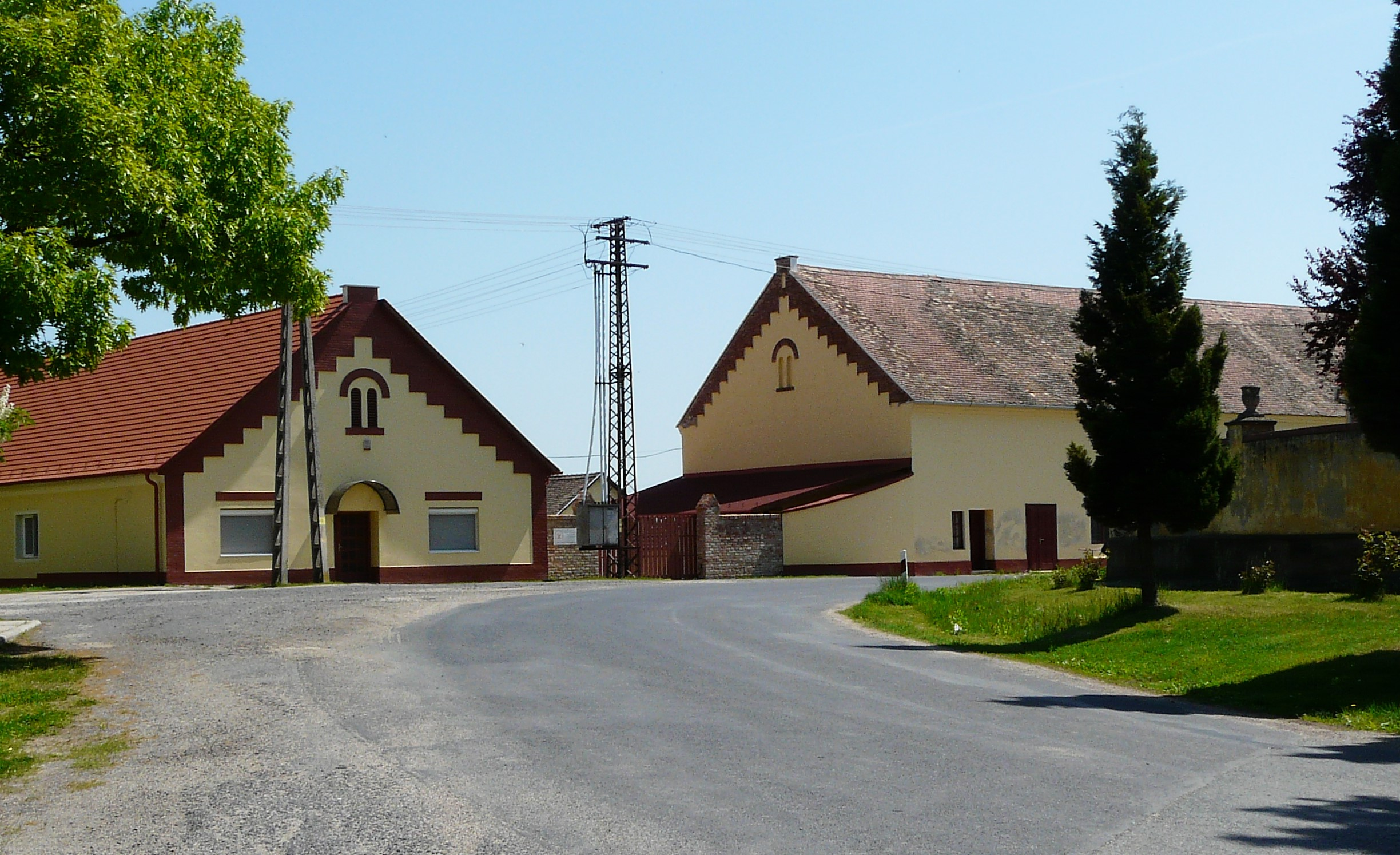 Buildings in Egyházashetye (Vas County, Hungary)